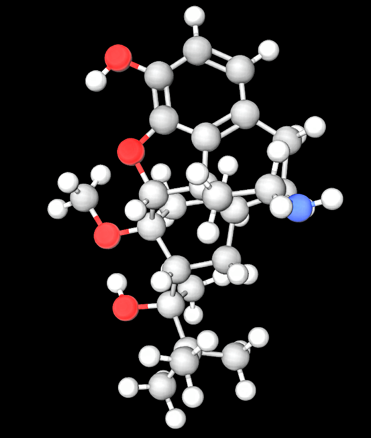 Norbuprenorhine